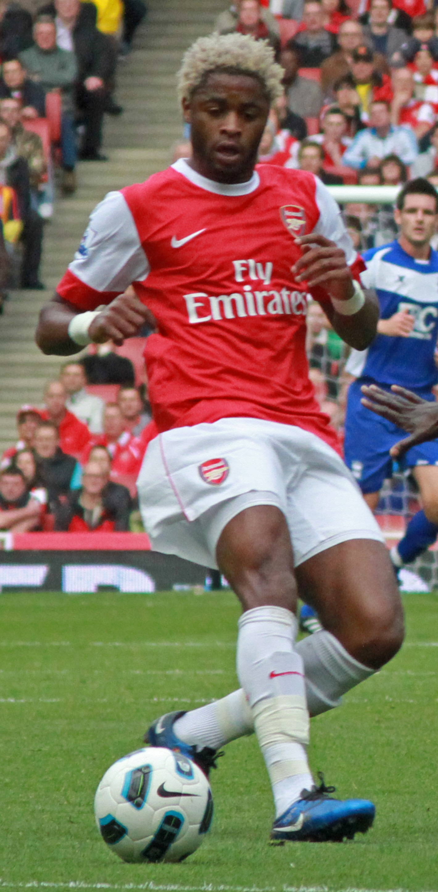 Alex Song